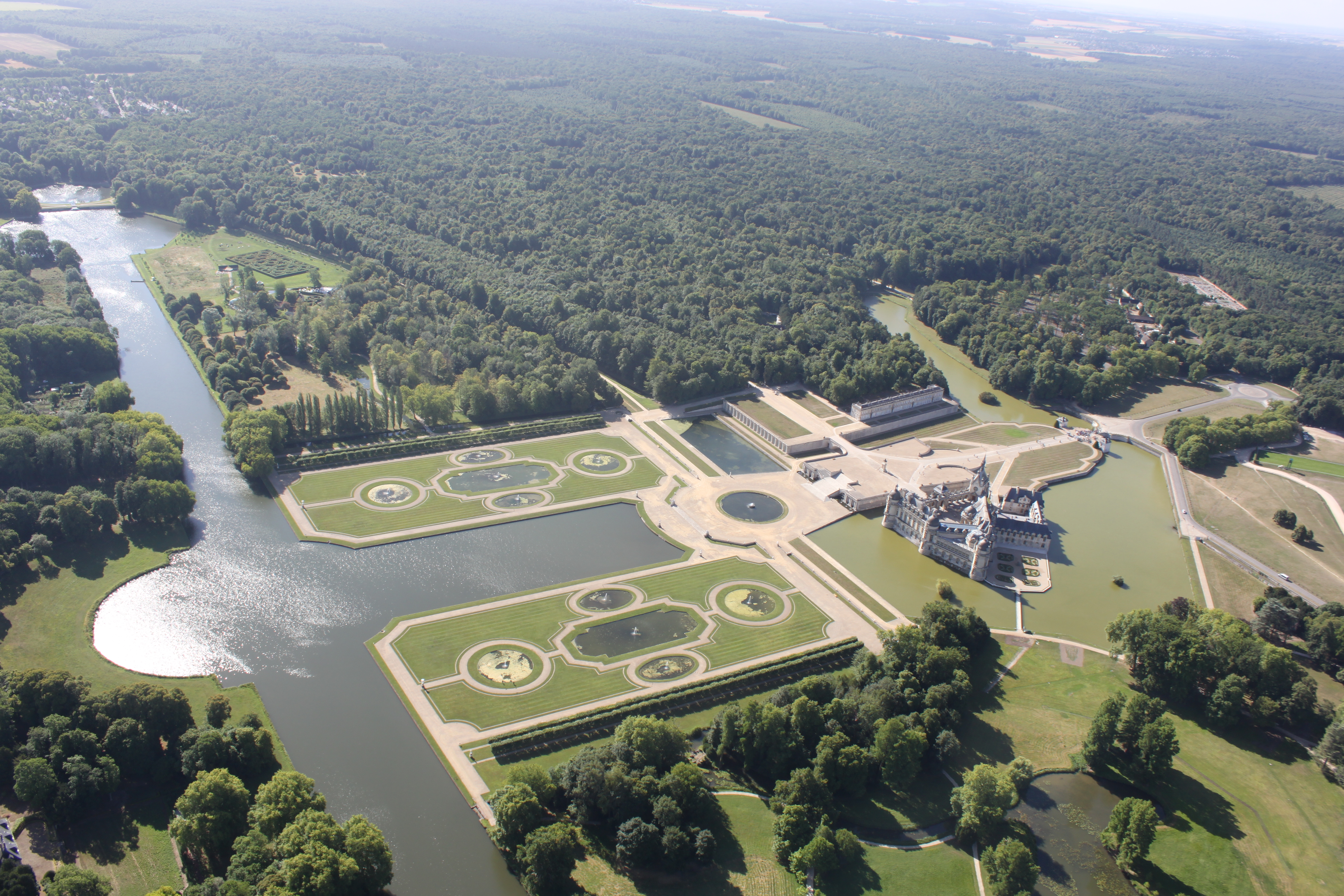 The Gardens of the Château de Chantilly